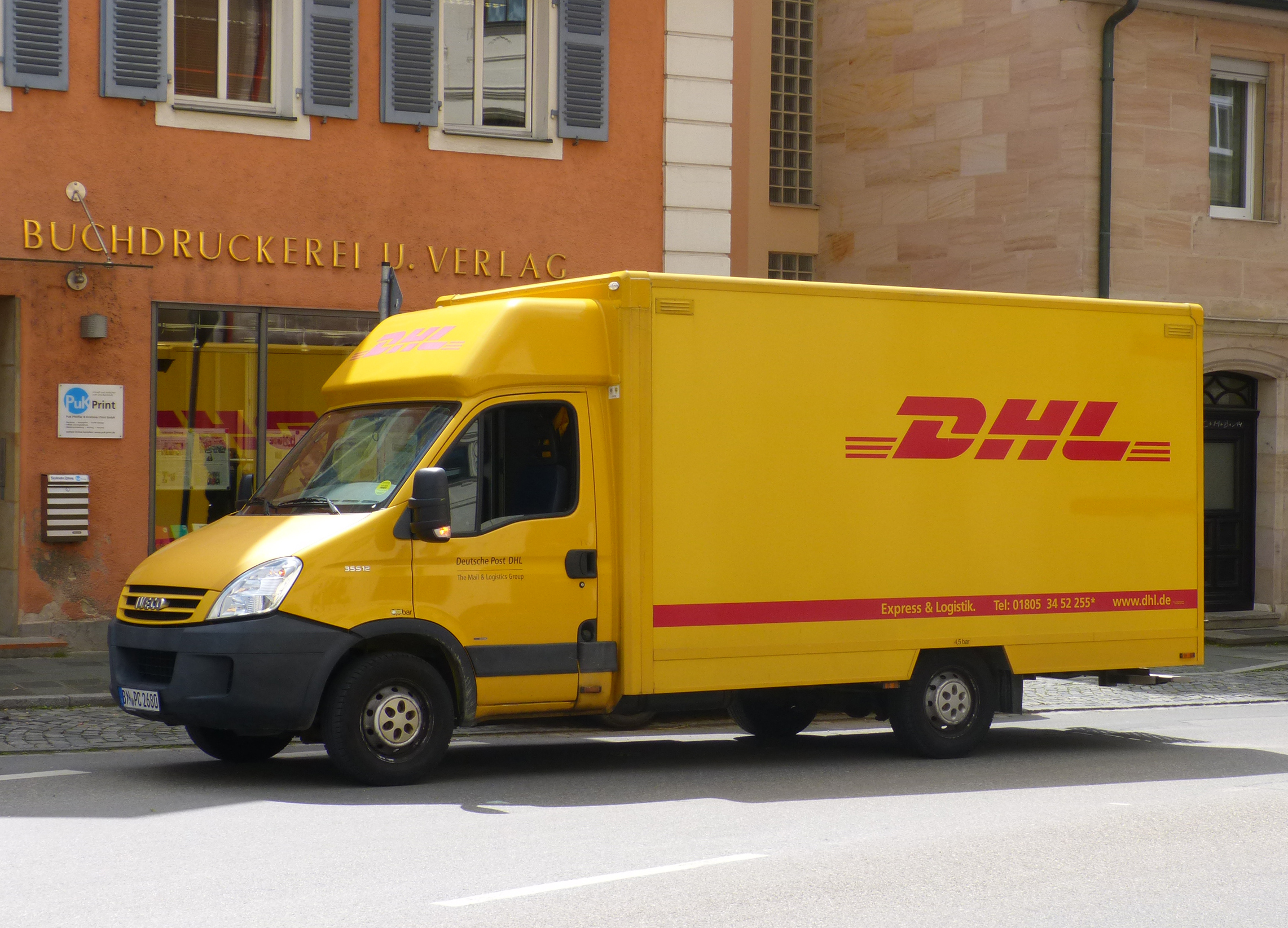 German DHL Van based on an Iveco Daily IV